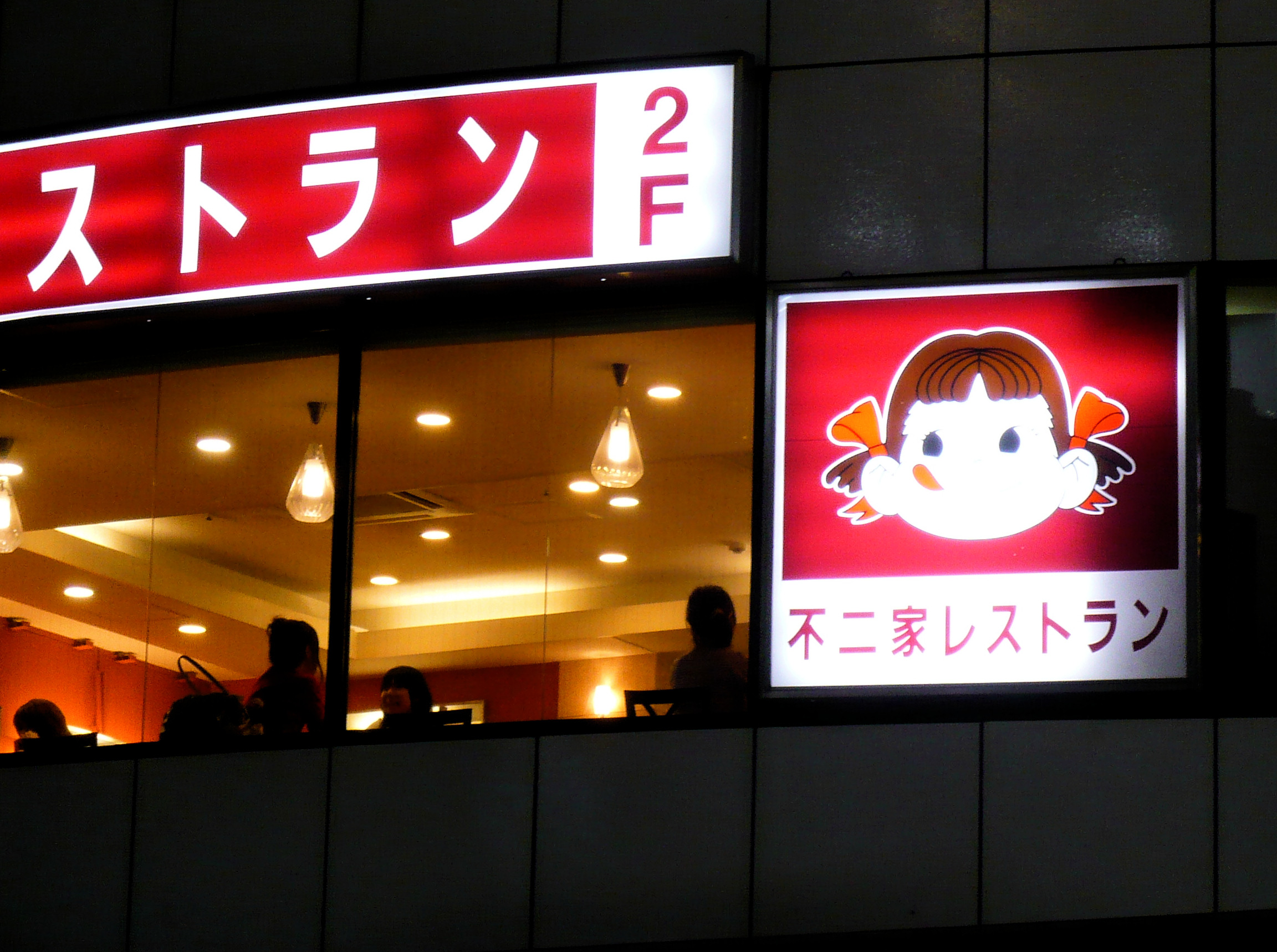 Fujiya restaurant in Shibuya, Tokyo. See "Shibuya le soir" and "Shibuya at night". Also see where this picture was taken.